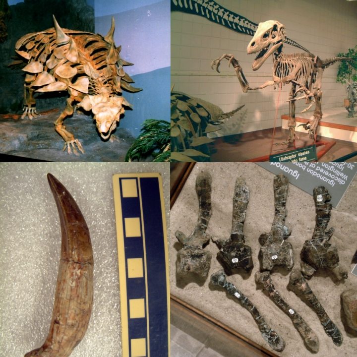 Examples of dinosaurs from the Cedar Mountain Formation (L-R): Gastonia, Utahraptor, theropod, Tenontosaurus.